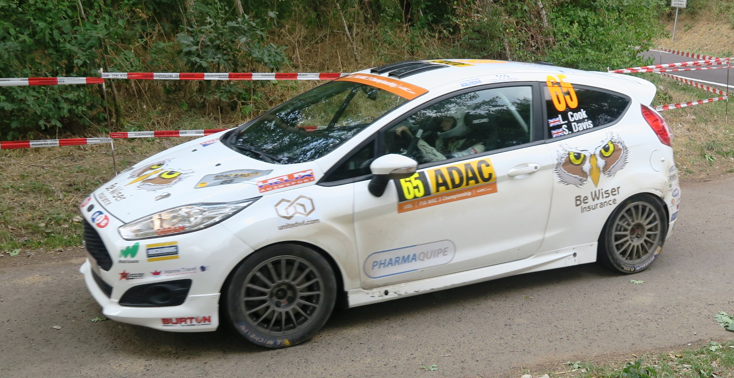 Louise Cook with Stefan Davis Deutsche Rallye 2018